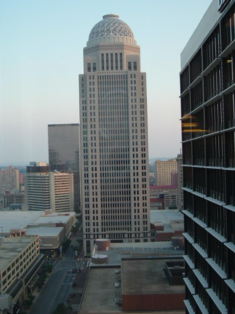 AEGON Center. Taken by uploader, all rights released